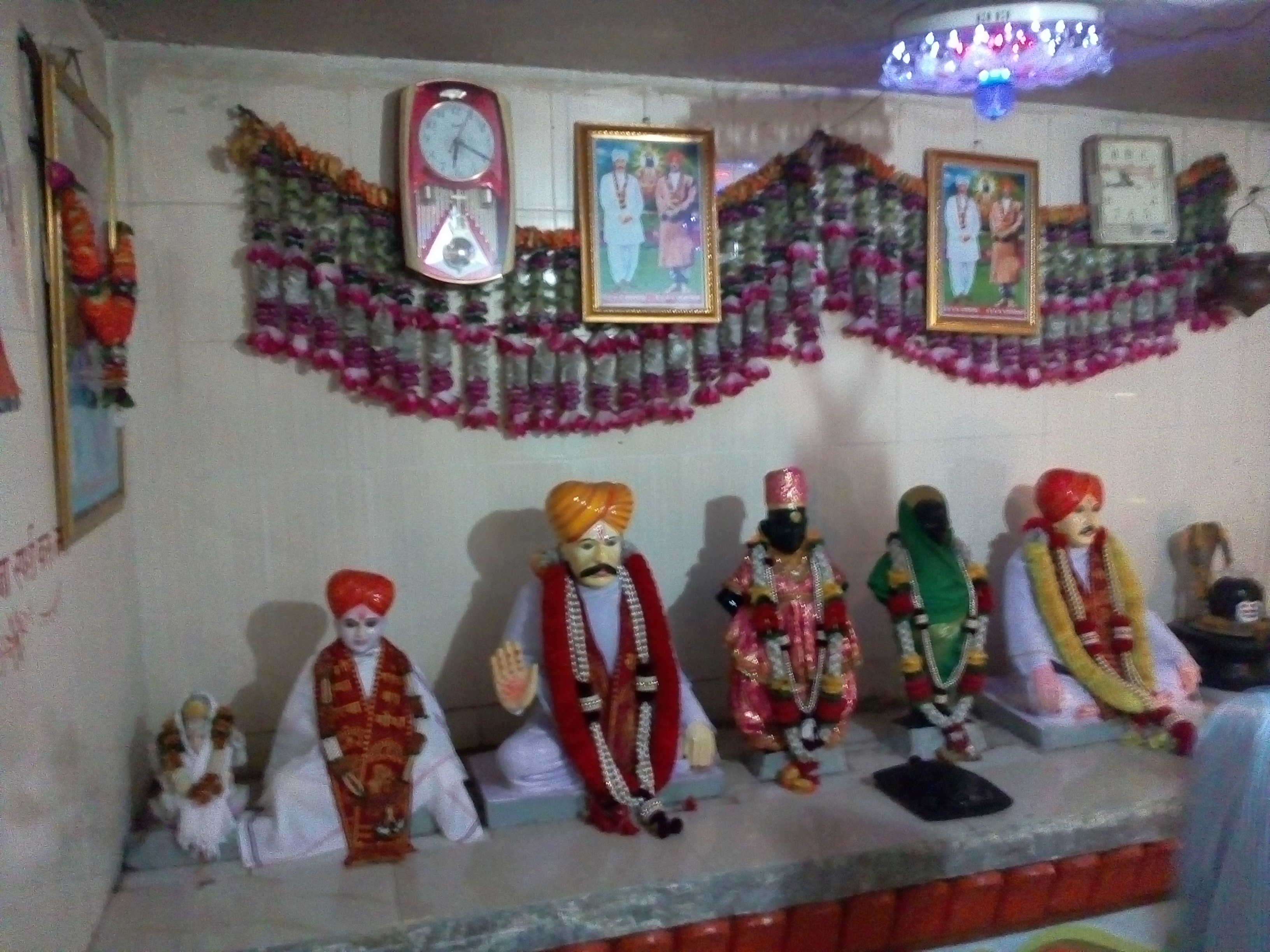 DHARWADI